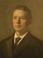 William Russell (1857-1896)